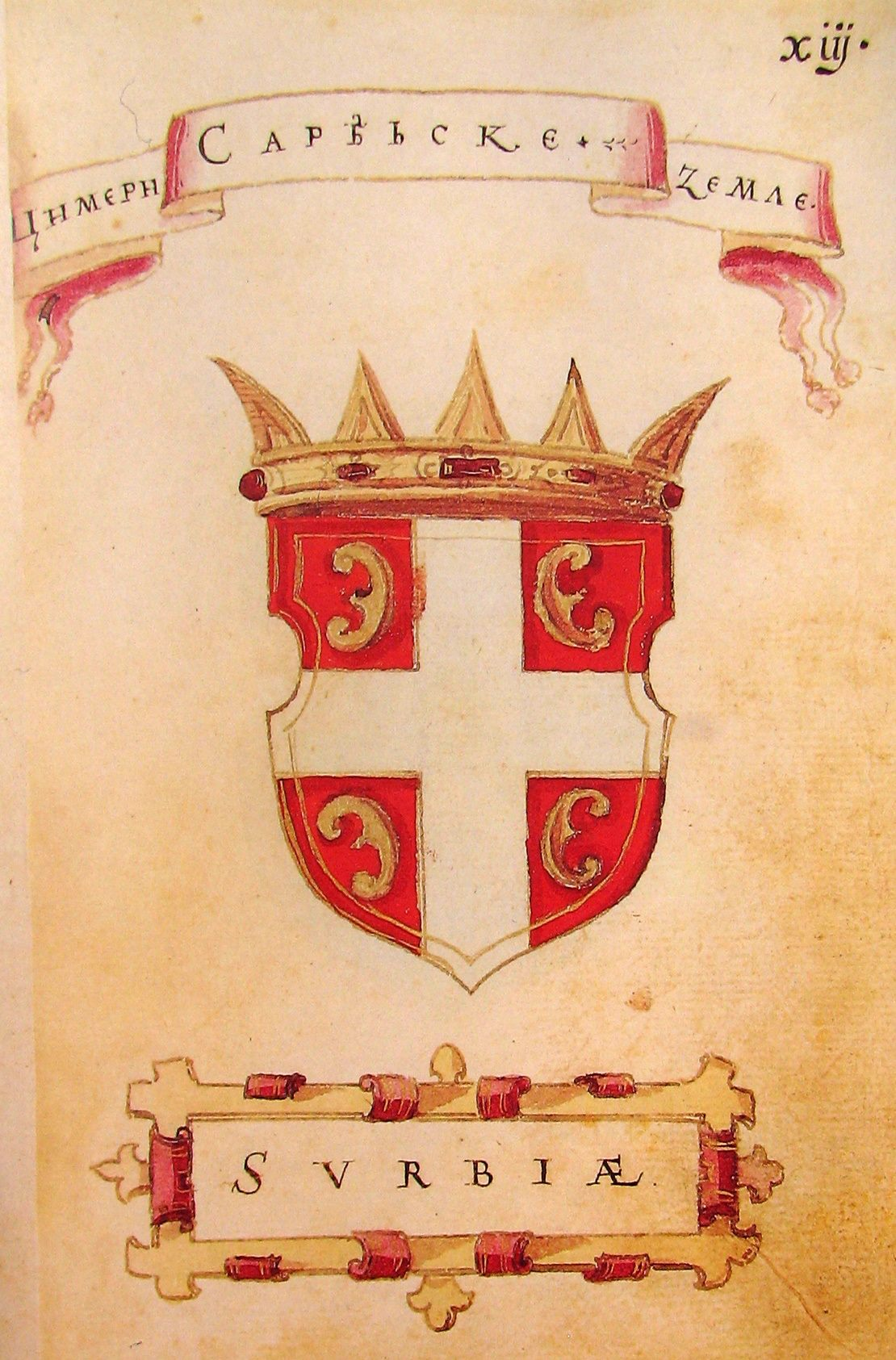 Coat of arms of Serbia from the "Korjenić-Neorić Armorial" (1595)